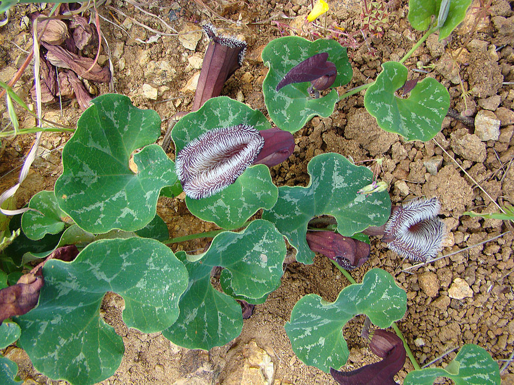 The foul smelling Oreja del Zorro vine. Traps, but does not consume, insects. In context at